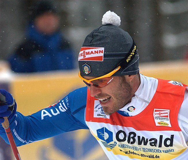 Roland Clara at the Tour de Ski 2010 in Oberhof